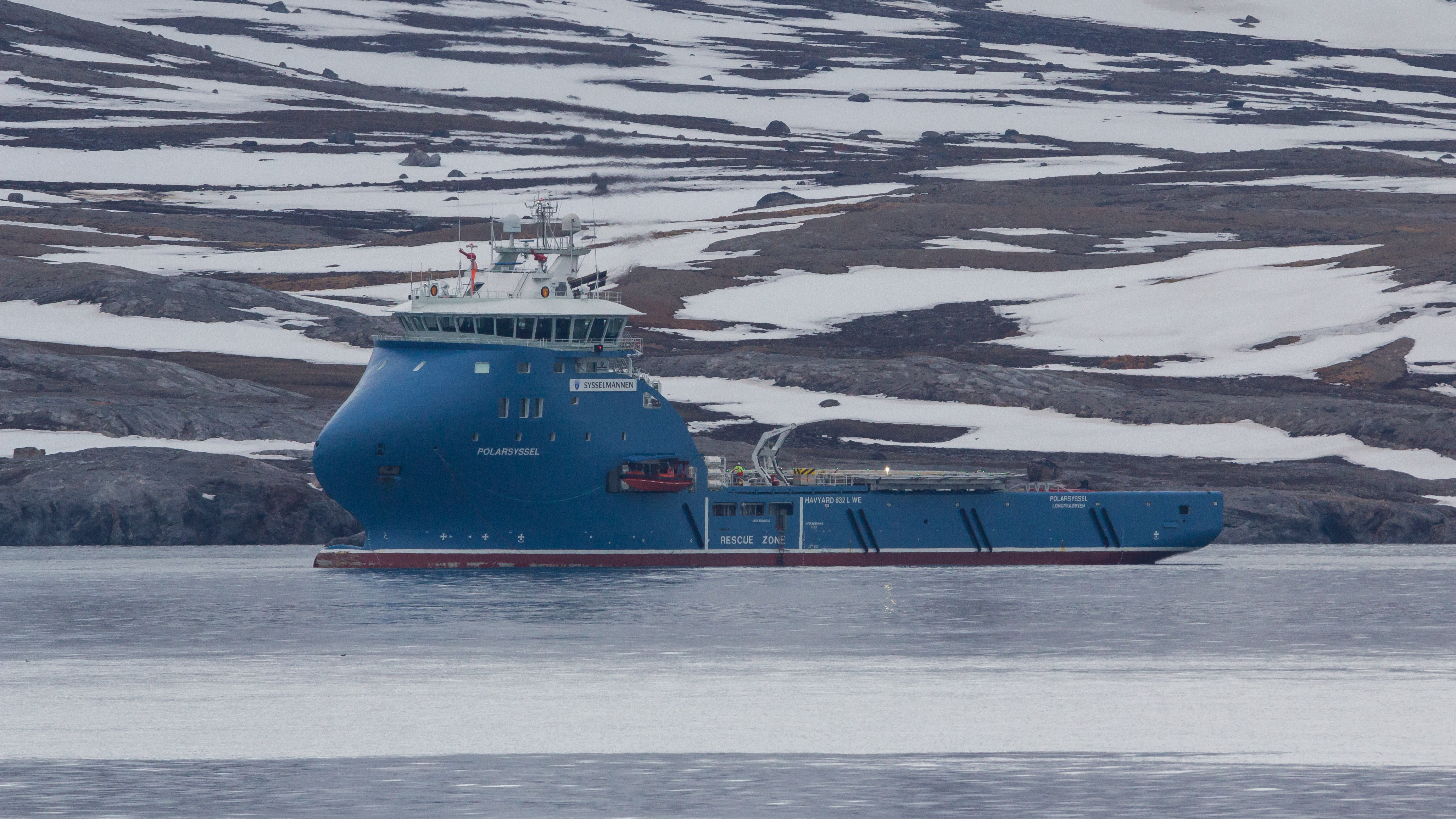 The official vessel for Sysselmannen på Svalbard, M/S Polarsyssel, in Kongsfjorden outside of Ny-Ålesund.